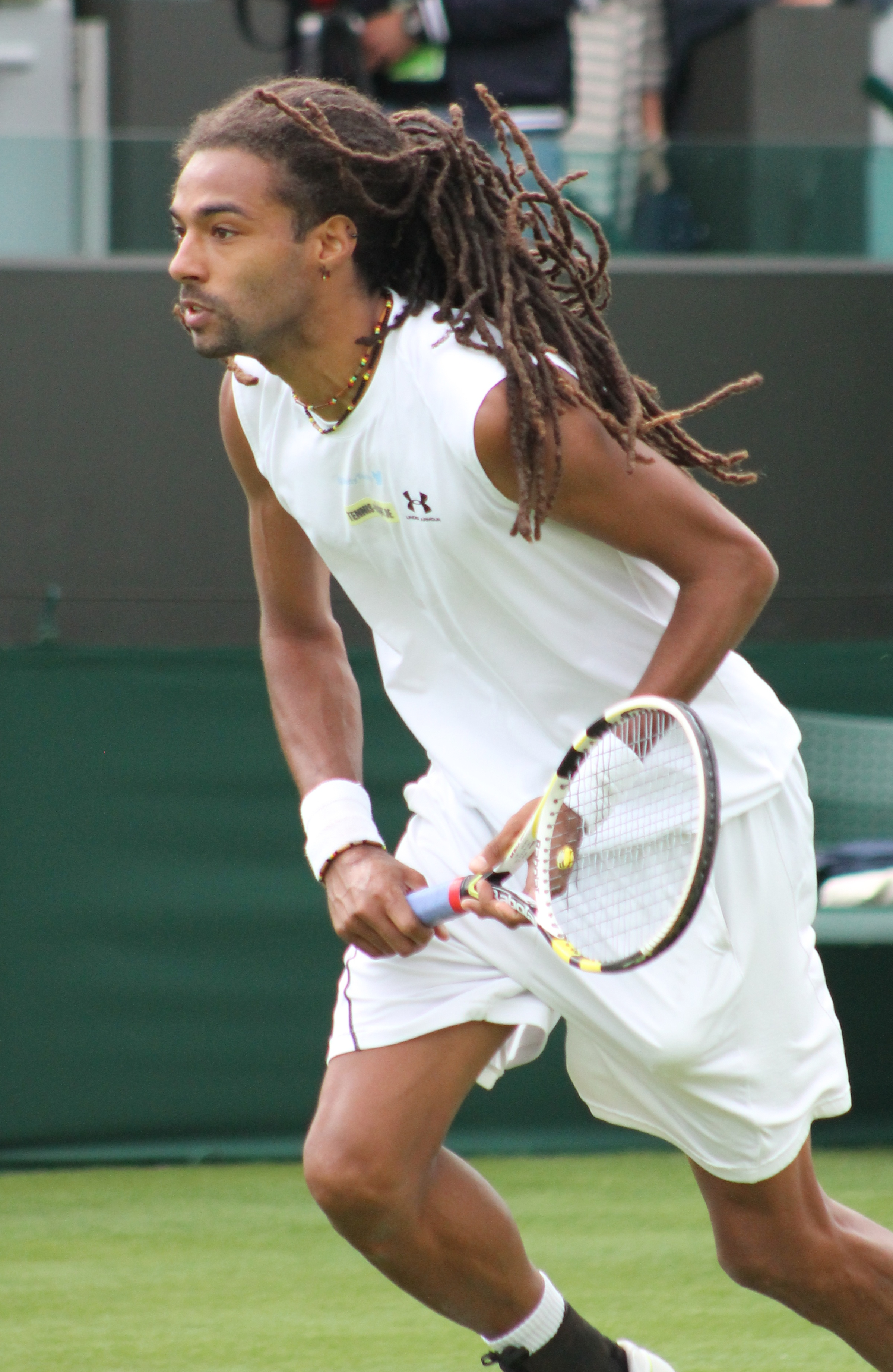 Brown WM13-003